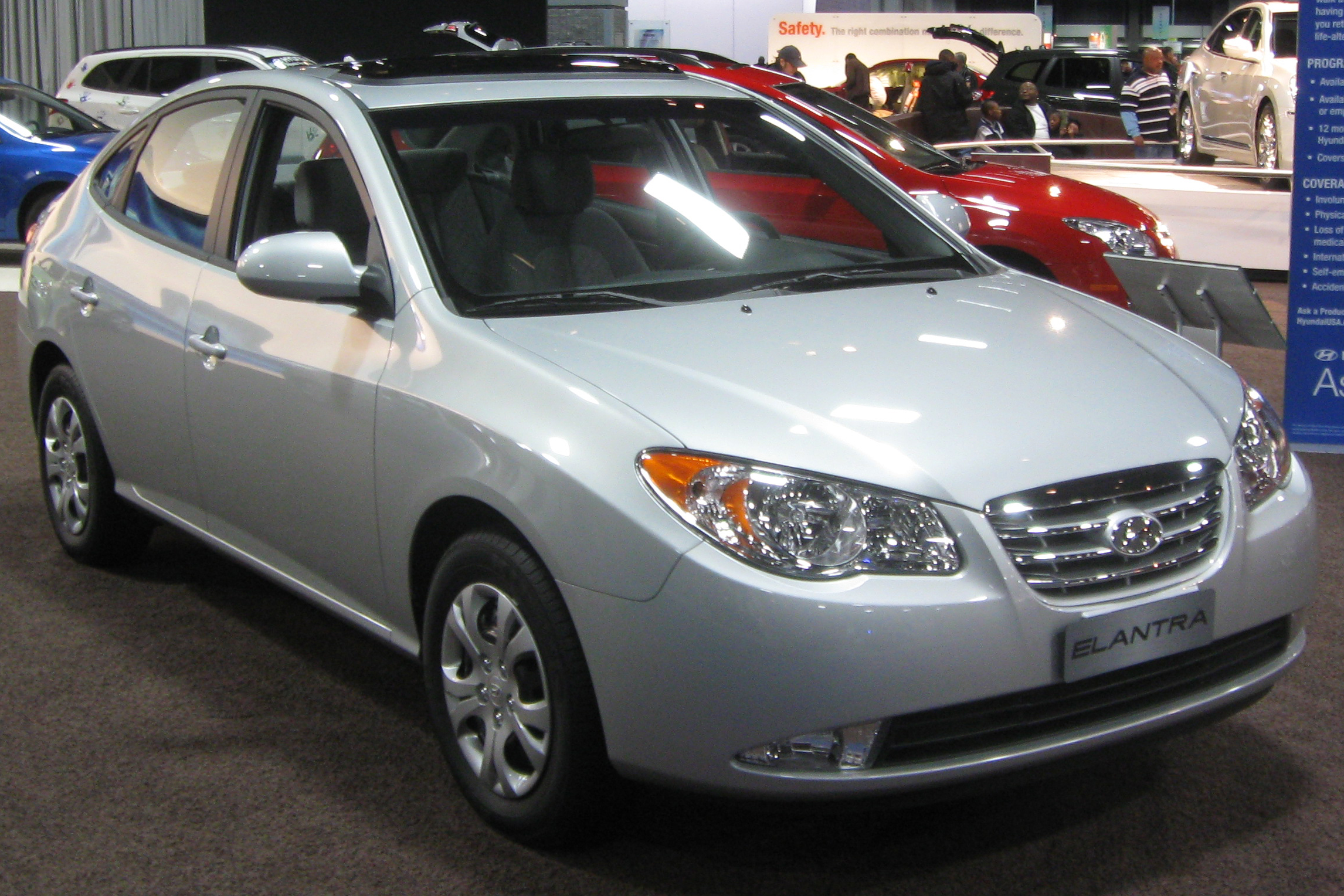 2010 Hyundai Elantra photographed at the 2010 Washington Auto Show.